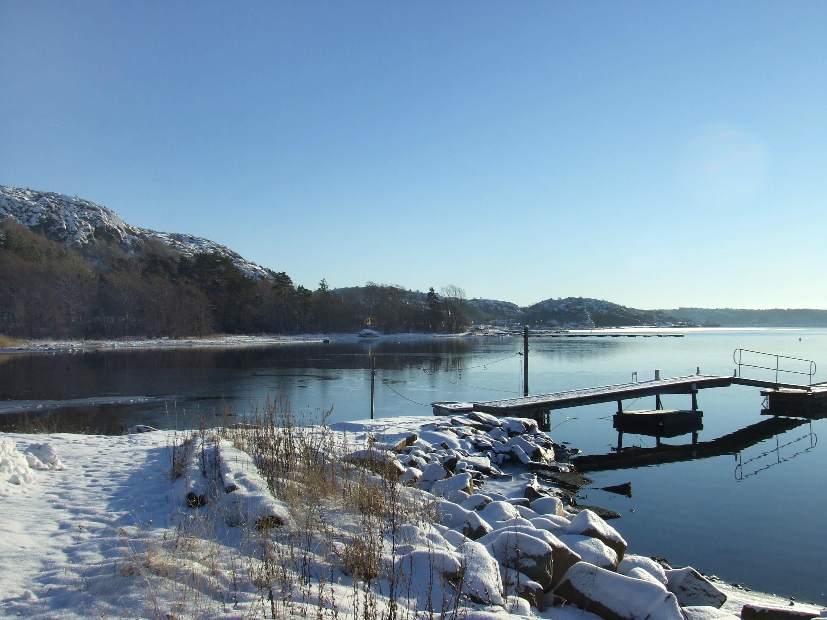 Shoreline and cliffs at the harbour at Holländaröd by Brofjorden, Lysekil Municipality, Sweden. Rixö harbor in the distance.